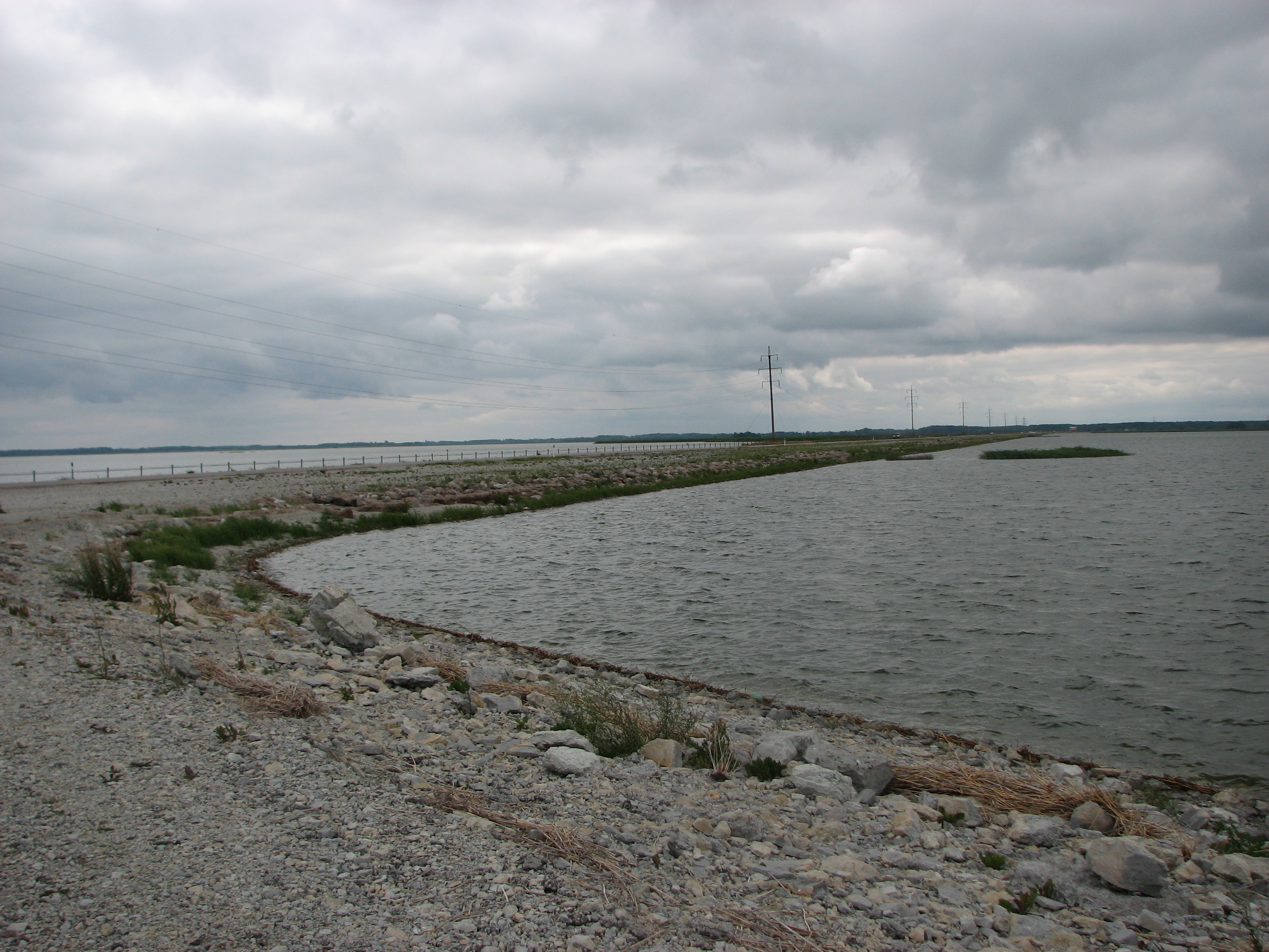 Levee over Small Strait (Väike väin), Estonia